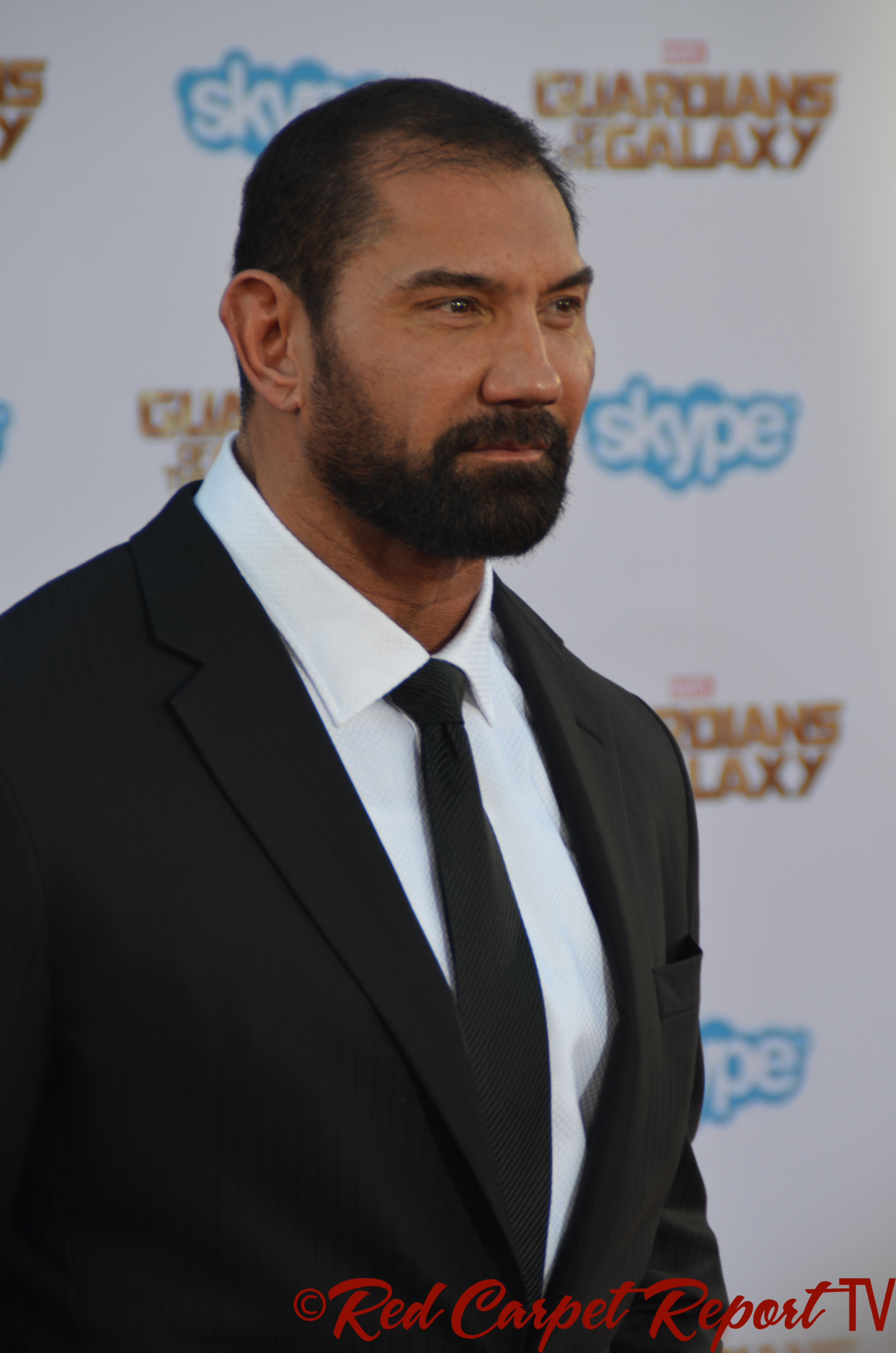 Actor Dave Batista at the Premiere of Guardians of the Galaxy at the El Capitan Theater in Hollywood on July 21, 2014